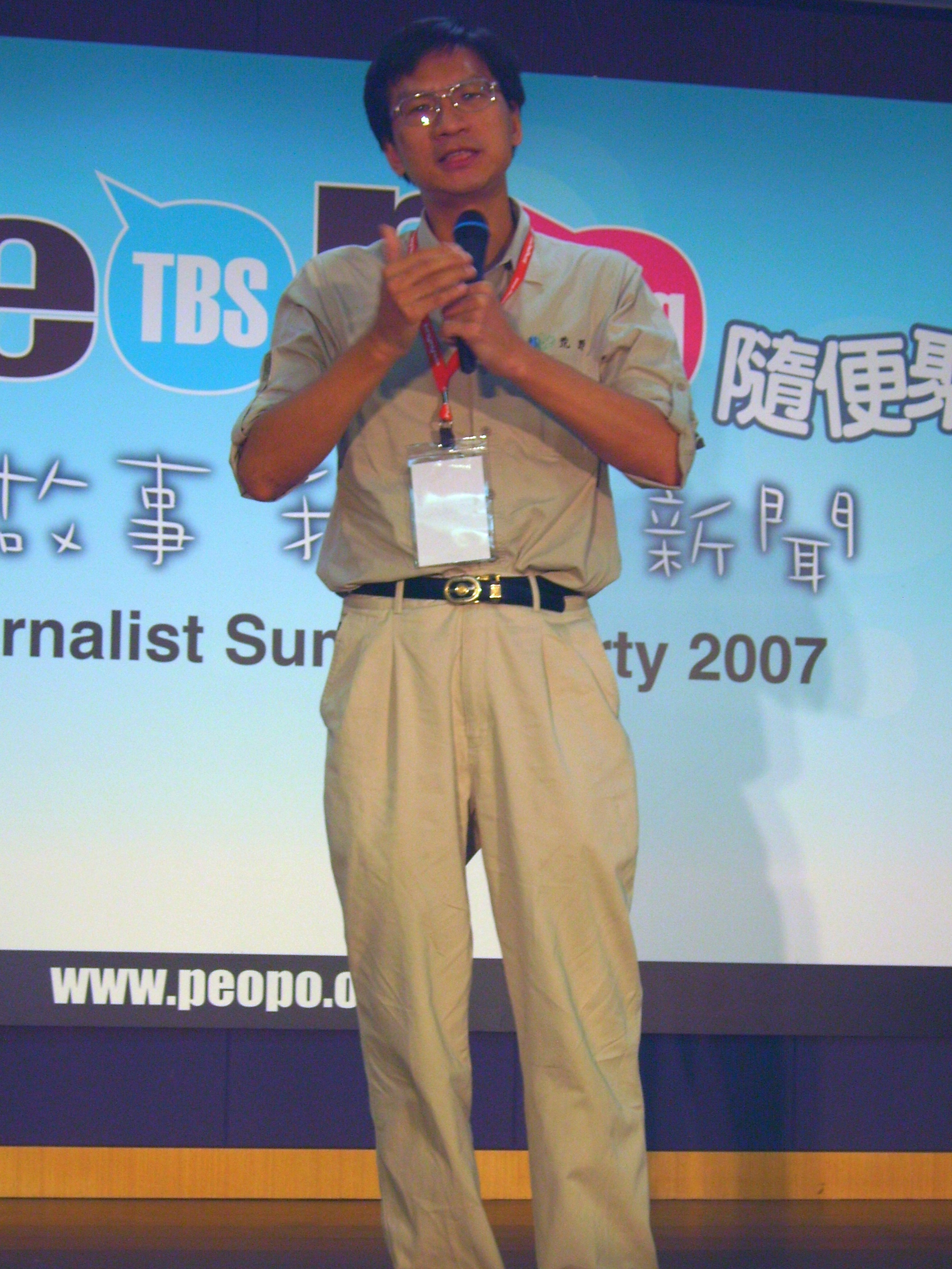 Wei-wen Li, Chairman of The Society of Wilderness (Taiwan).